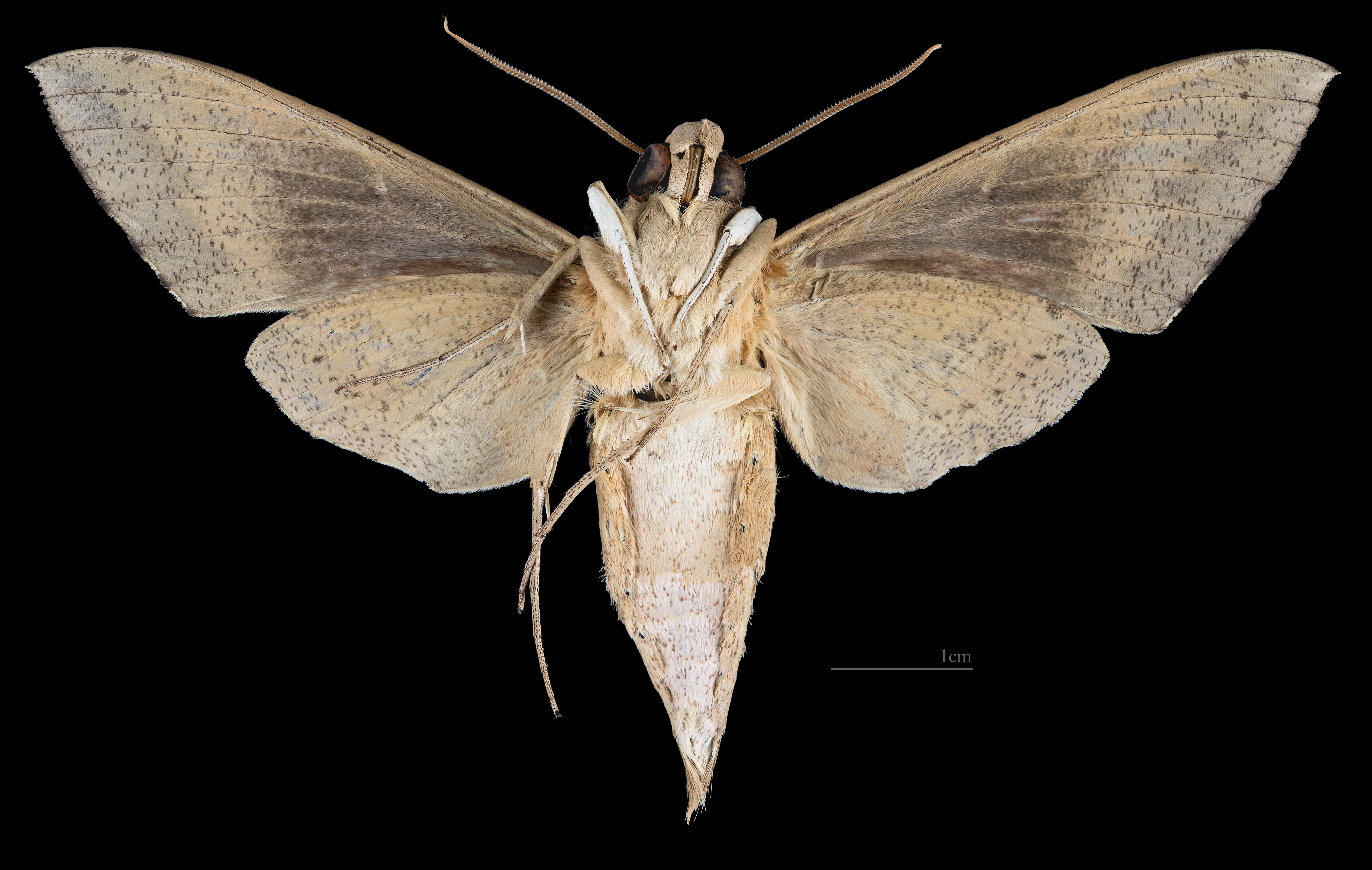 Theretra tryoni - △ Ventral side Collection of the Mathematician Laurent Schwartz